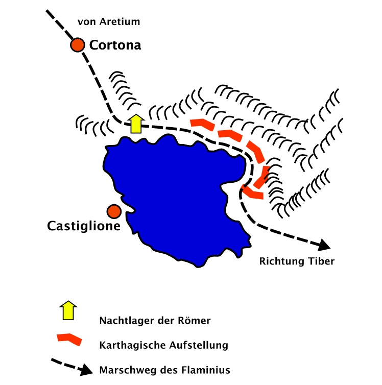 Battle of Lake Trasimene - schema